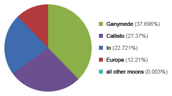 Pie chart of the masses of the Jovian moons. The small moons don't even show up.